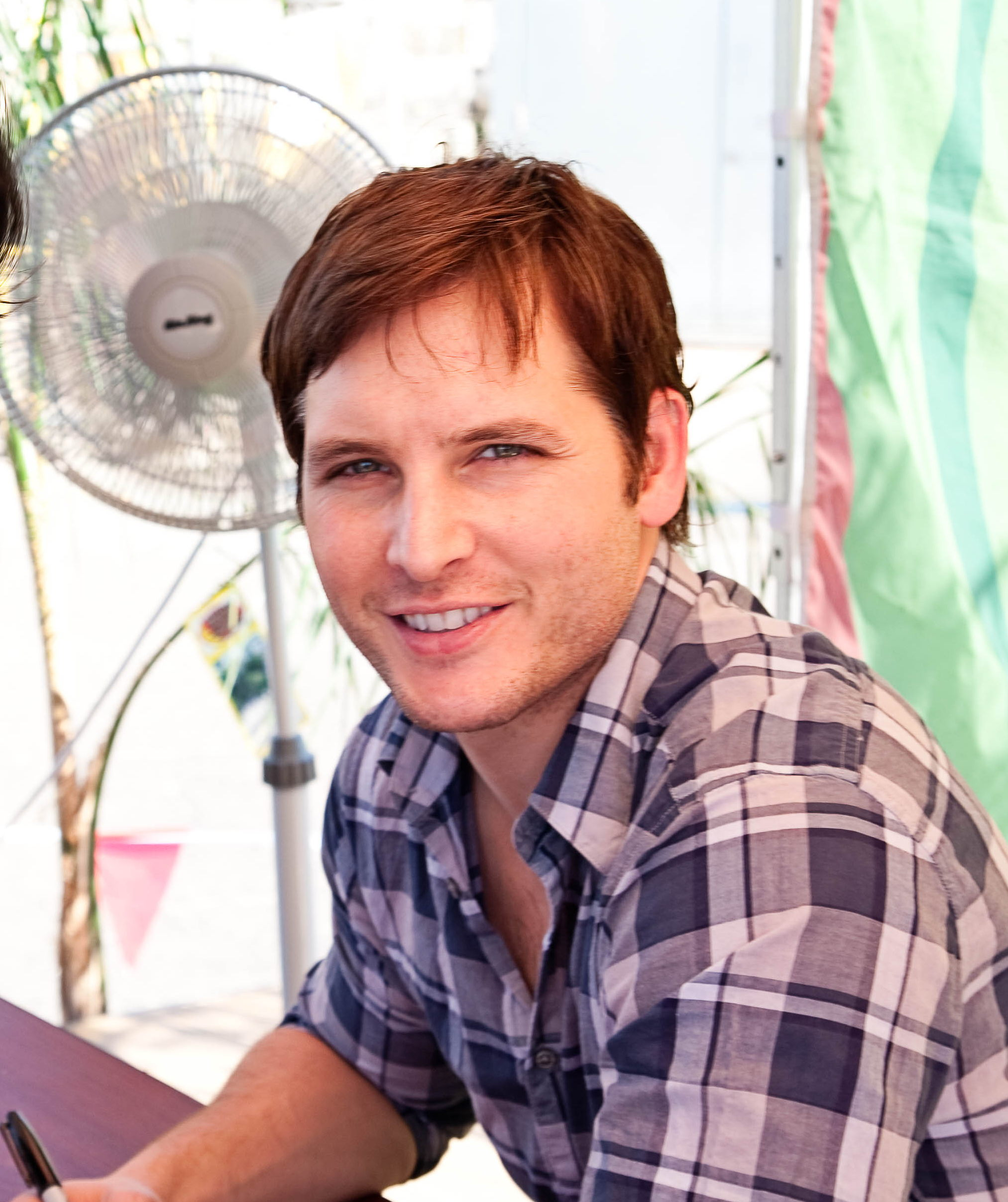 Actor Peter Facinelli